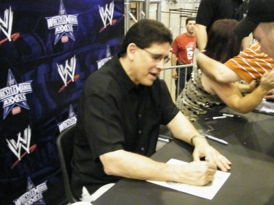 Tito Santana is very pleased to sign an old photo from Houston Wrestling at the Sam Houston Coliseum days.